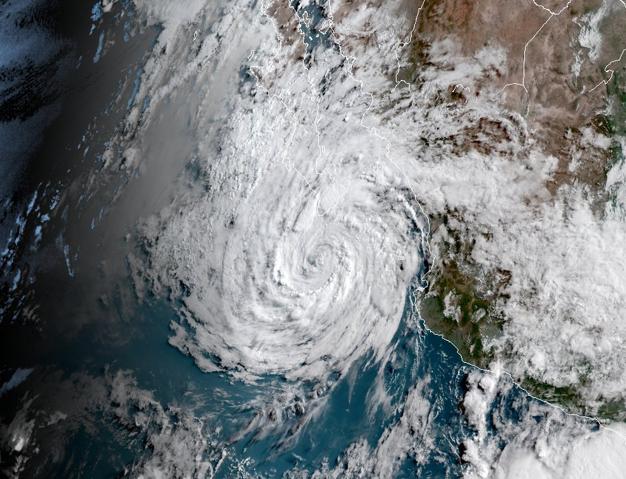 Tropical Storm Bud is weakening as it heads for landfall. Expected to bring heavy rain to parts of north-western Mexico and later south-western USA.